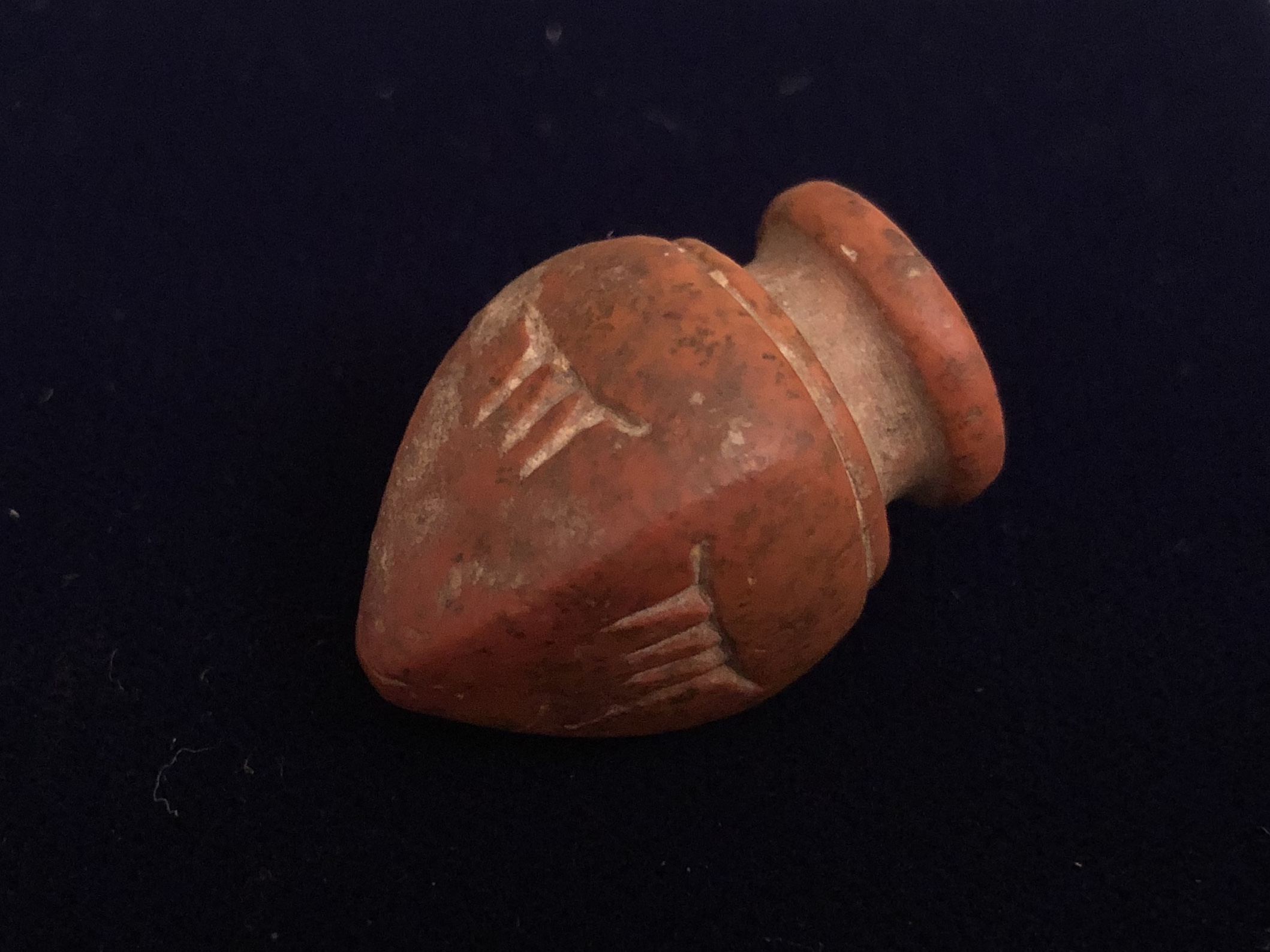 Ancient 4 sided spinning top, dated by Wilfred G. Lambert to not later than the mid 2nd millennium BCE (see File:Lambert letter describing 4 sided spinning top.jpg, File:Ancient 4 sided spinning top.webm)